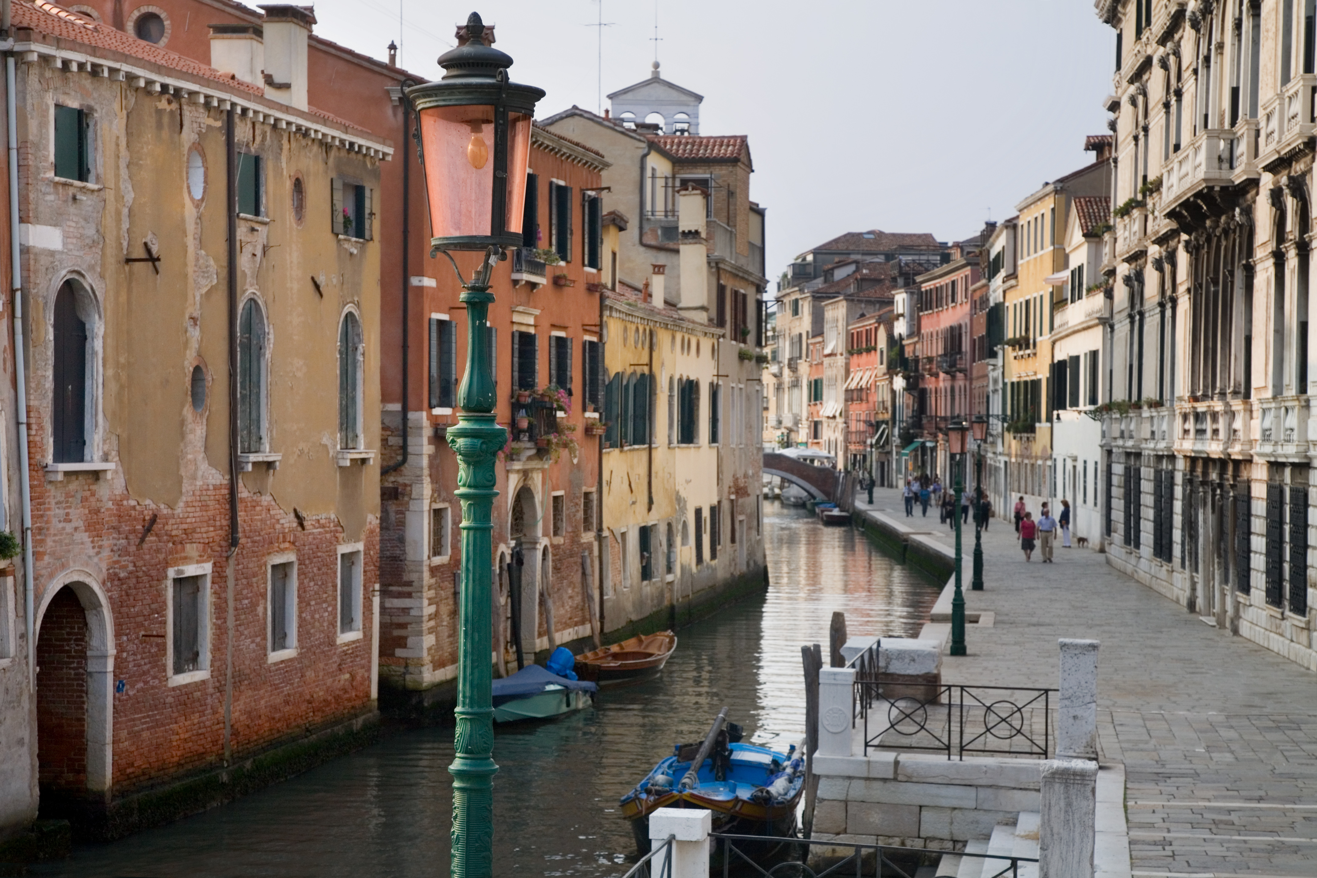 Street scene by a canal. Venice, Italy 2009